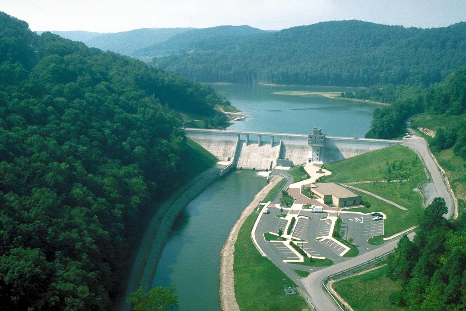 Stonewall Jackson Lake and Dam near the town of Weston in Lewis County, West Virginia, USA. The U.S. Army Corps of Engineers constructed the dam on the West Fork river for flood control. View is upriver to the south-southwest.